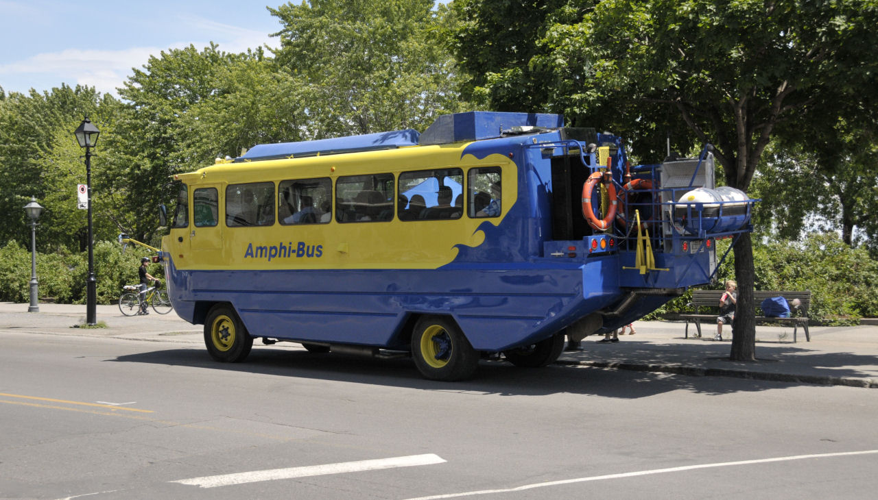 Bus-marine they should call it instead of Sub-Marine.